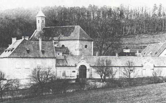 The hunting lodge and outbuildings at Mayerling, before 1889